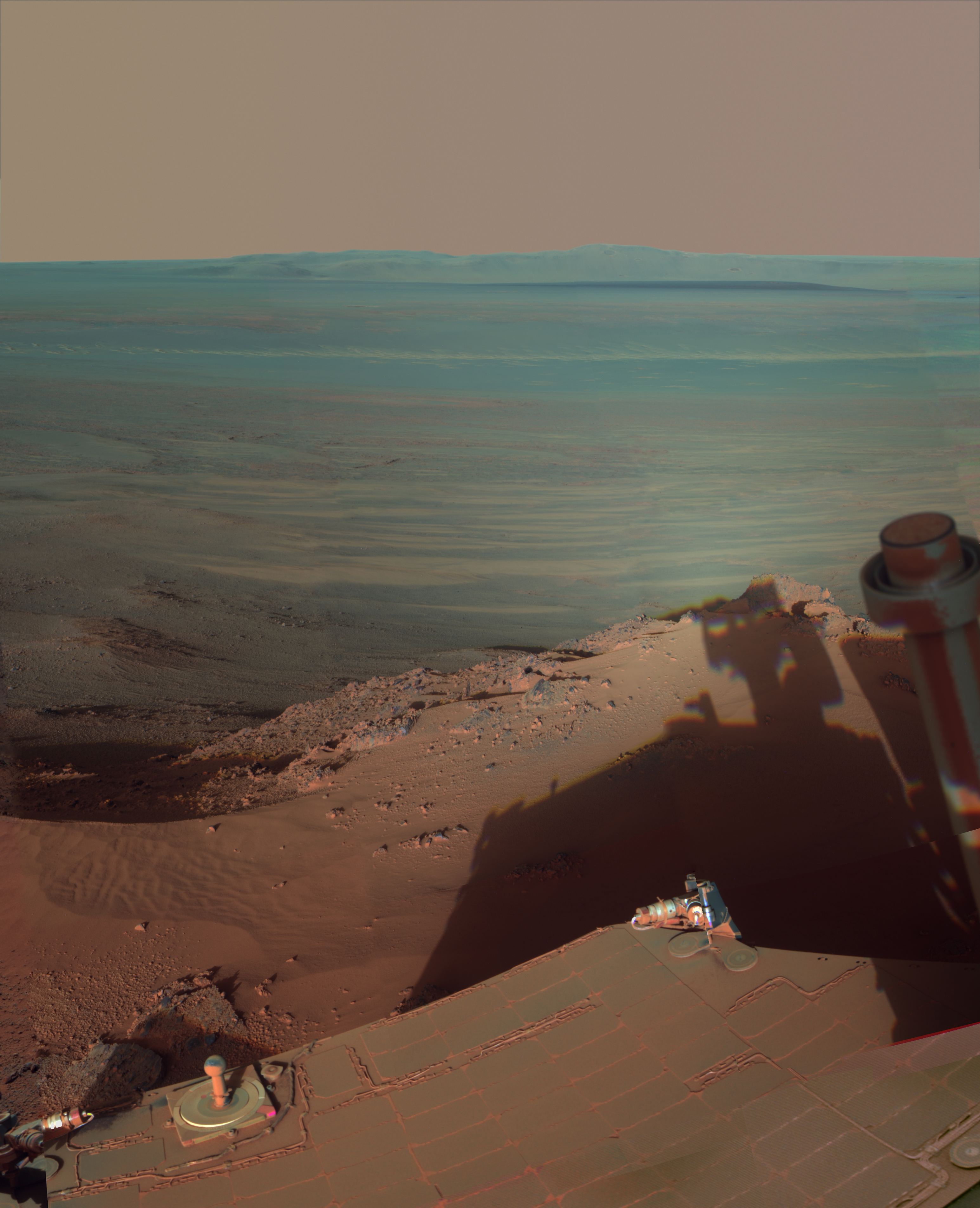 NASA's Mars Rover Opportunity catches its own late-afternoon shadow in this dramatically lit view eastward across Endeavour Crater on Mars. The rover used the panoramic camera (Pancam) between about 4:30 and 5:00 p.m. local Mars time to record images taken through different filters and combined into this mosaic view. Most of the component images were recorded during the 2,888th Martian day, or sol, of Opportunity's work on Mars (March 9, 2012). At that time, Opportunity was spending low-solar-energy weeks of the Martian winter at the Greeley Haven outcrop on the Cape York segment of Endeavour's western rim. In order to give the mosaic a rectangular aspect, some small parts of the edges of the mosaic and sky were filled in with parts of an image acquired earlier as part of a 360-degree panorama from the same location. Opportunity has been studying the western rim of Endeavour Crater since arriving there in August 2011. This crater spans 14 miles (22 kilometers) in diameter, or about the same area as the city of Seattle. This is more than 20 times wider than Victoria Crater, the largest impact crater that Opportunity had previously examined. The interior basin of Endeavour is in the upper half of this view. The mosaic combines about a dozen images taken through Pancam filters centered on wavelengths of 753 nanometers (near infrared), 535 nanometers (green) and 432 nanometers (violet). The view is presented in false color to make some differences between materials easier to see, such as the dark sandy ripples and dunes on the crater's distant floor.